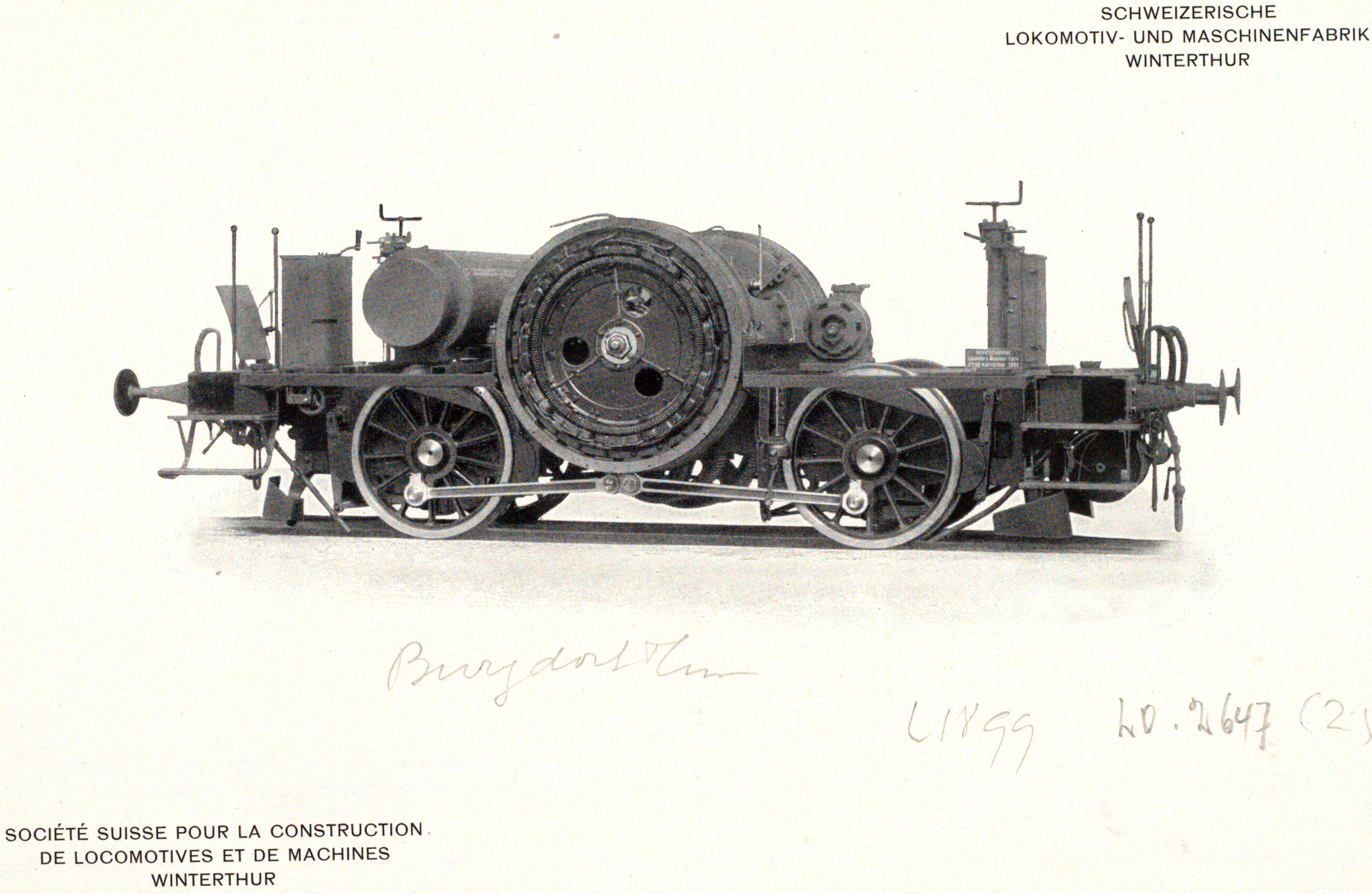 A slight crop of the original image to fit better as a thumbnail in wikipedia